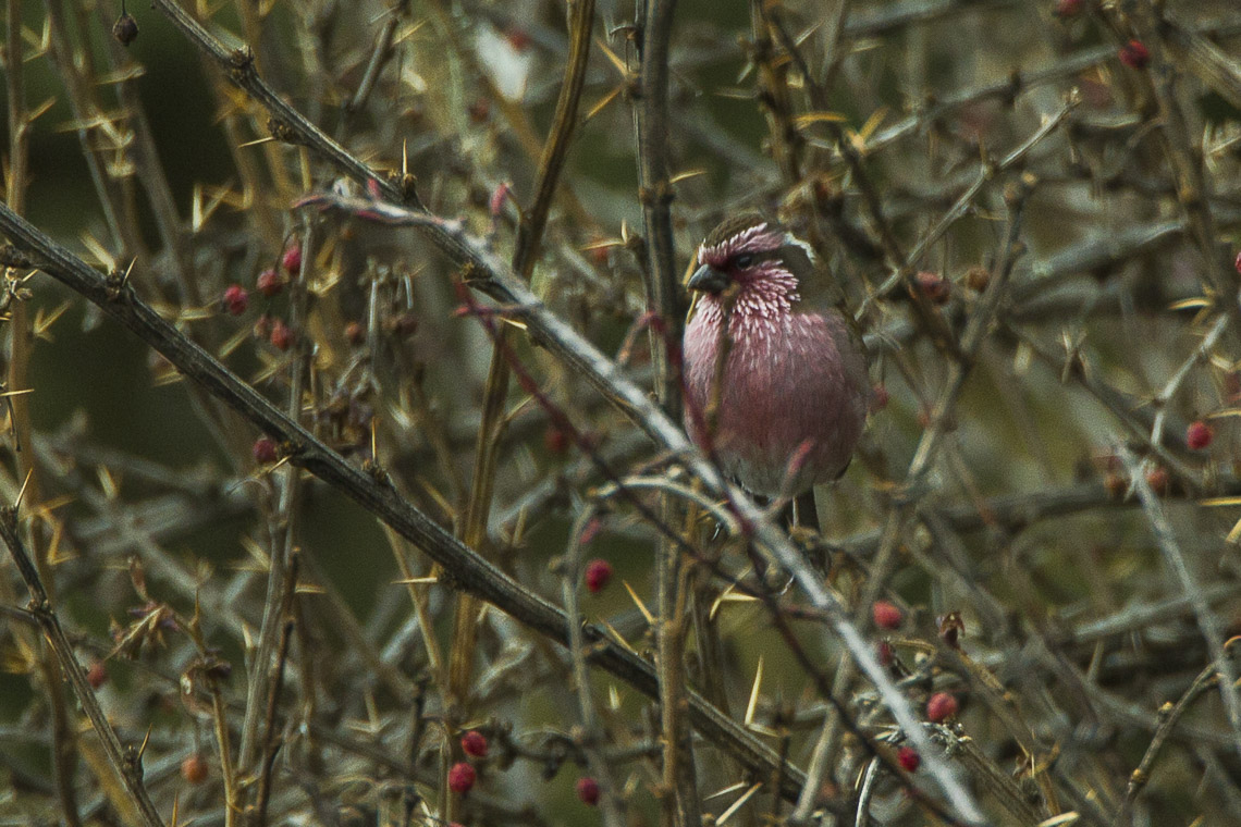 White-browed Rosefinch - Bhutan_S4E8163